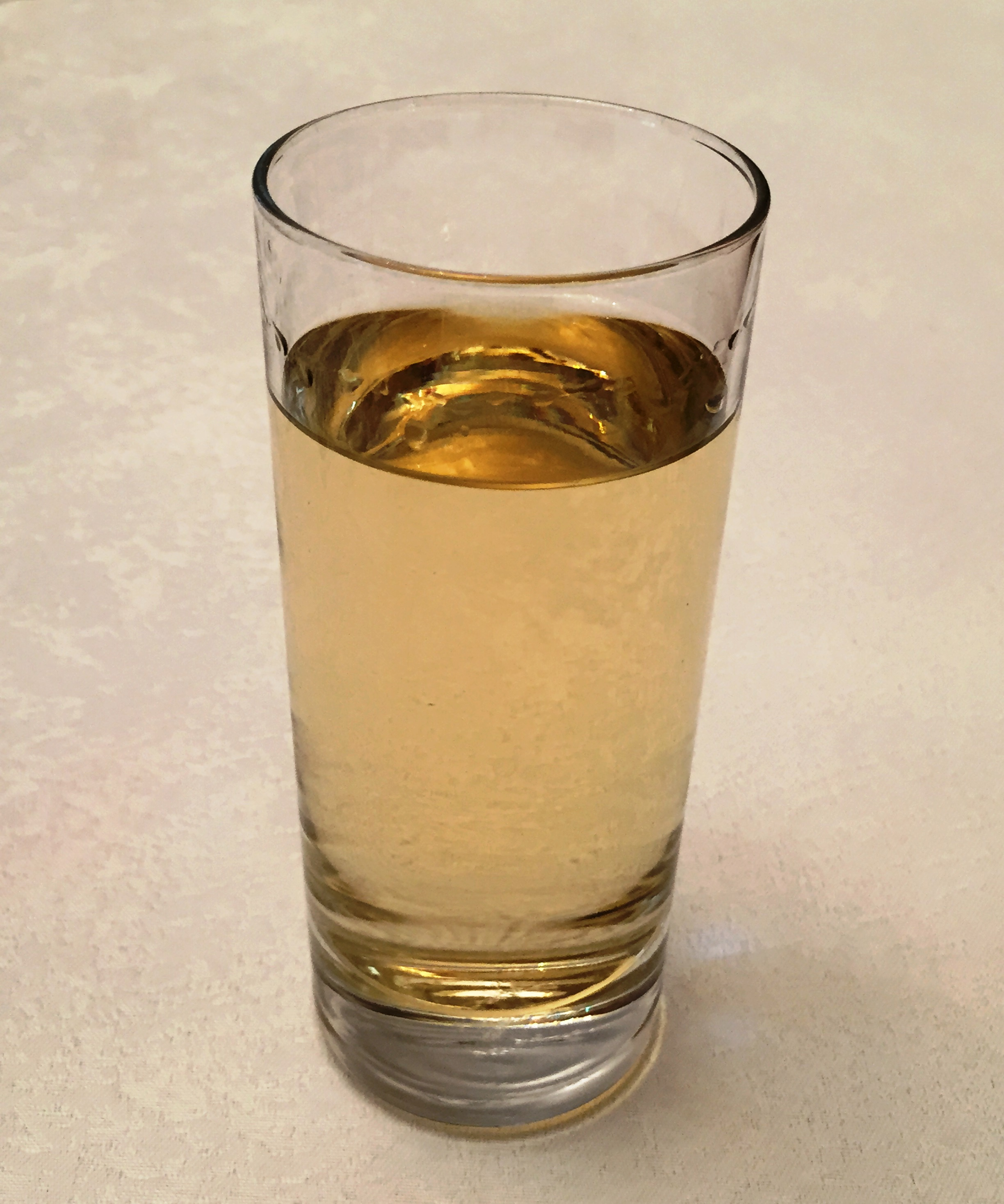 A glass of home made mulberry vodka